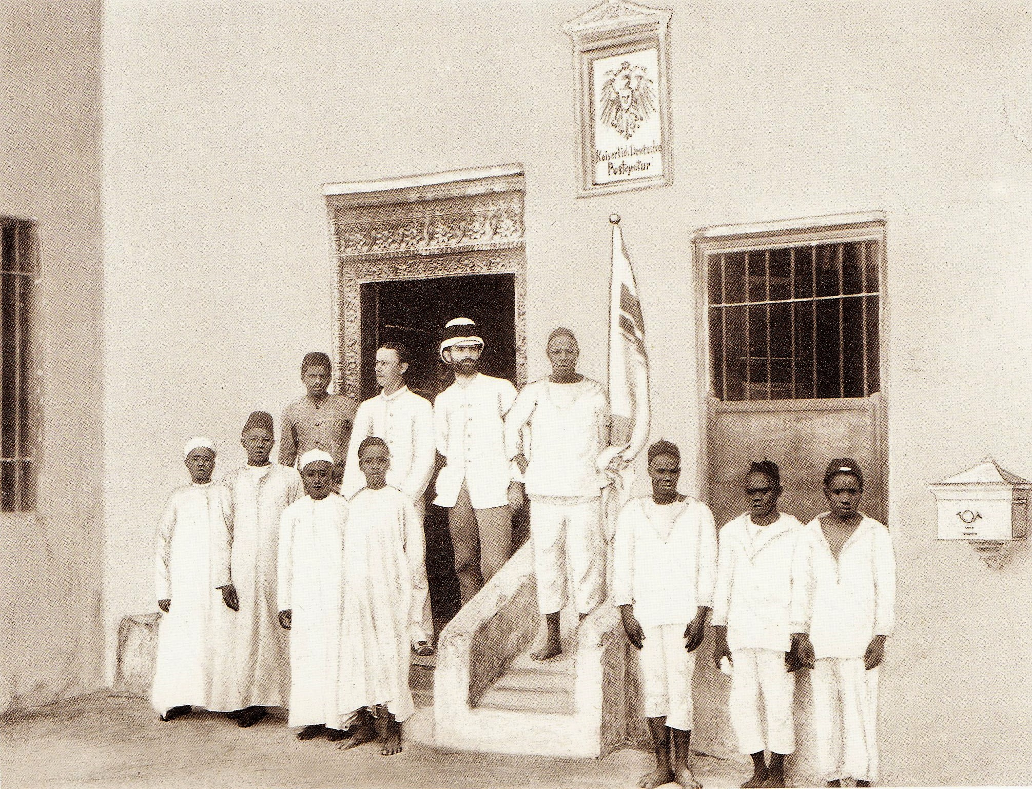 Imperial German Postal Agency in Zanzibar with its staff (1890). The first two postal agencies in former German East Africa were in Lamu and Zanzibar. They were closed again after the Helgoland-Zanzibar Treaty of 1890, in which the territory in which they were located became British.